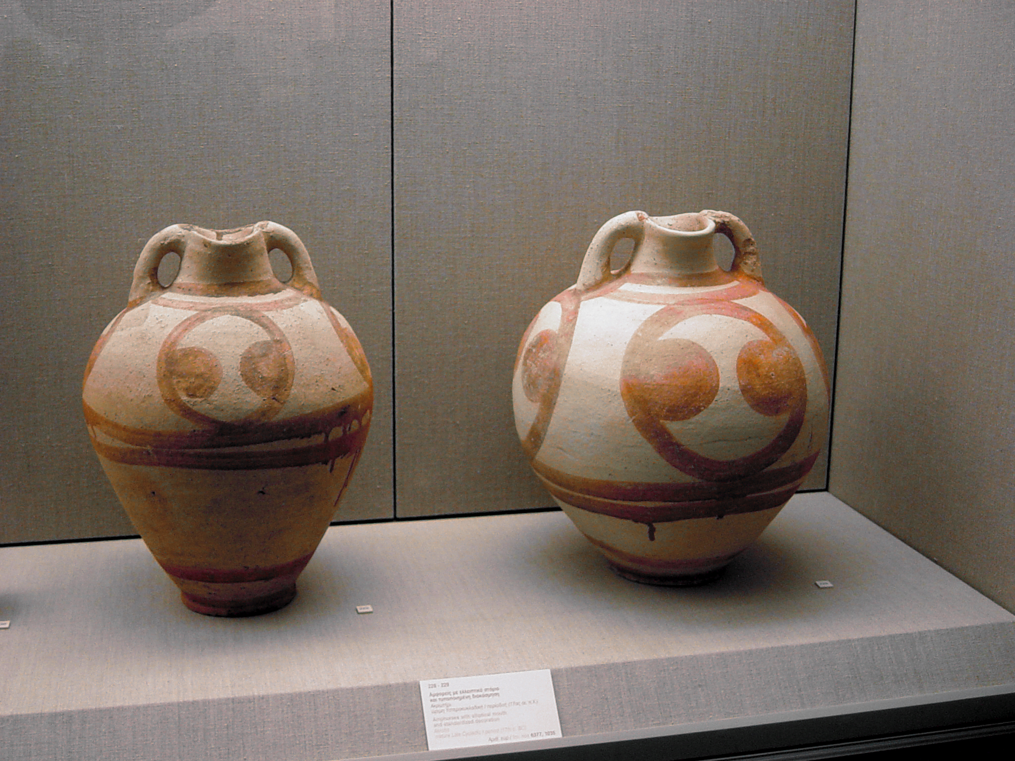 Utilitarian terracotta objects, Museum of Cycladic Culture, Akrotiri excavation artifacts, Santorini, Cyclides, Hellas (Greece)